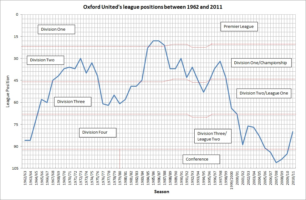 A graph to show Oxford United's league positions since 1962